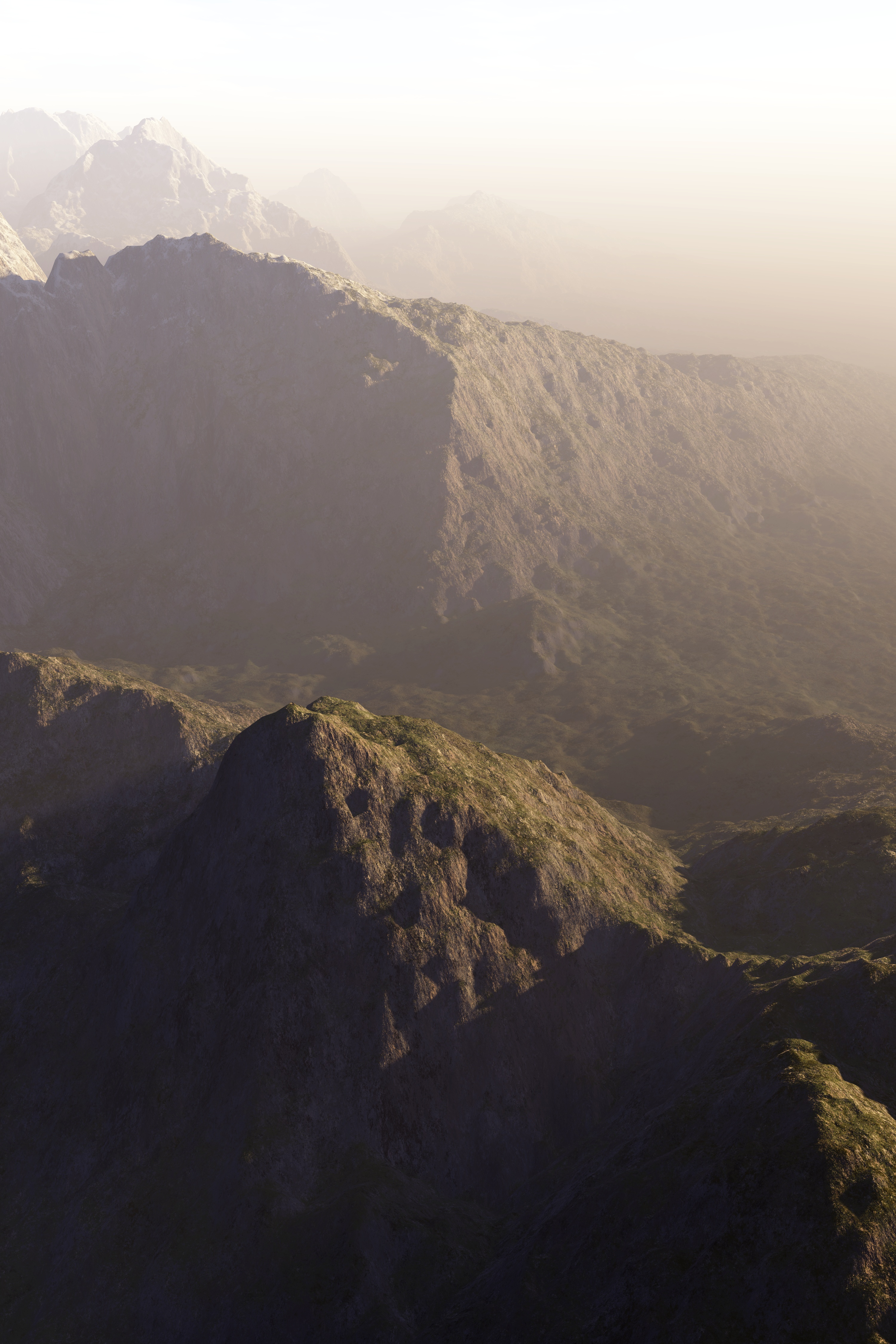 Artist's depiction of the foothills of the Misty Mountains of Middle-earth, west, Eriador side.